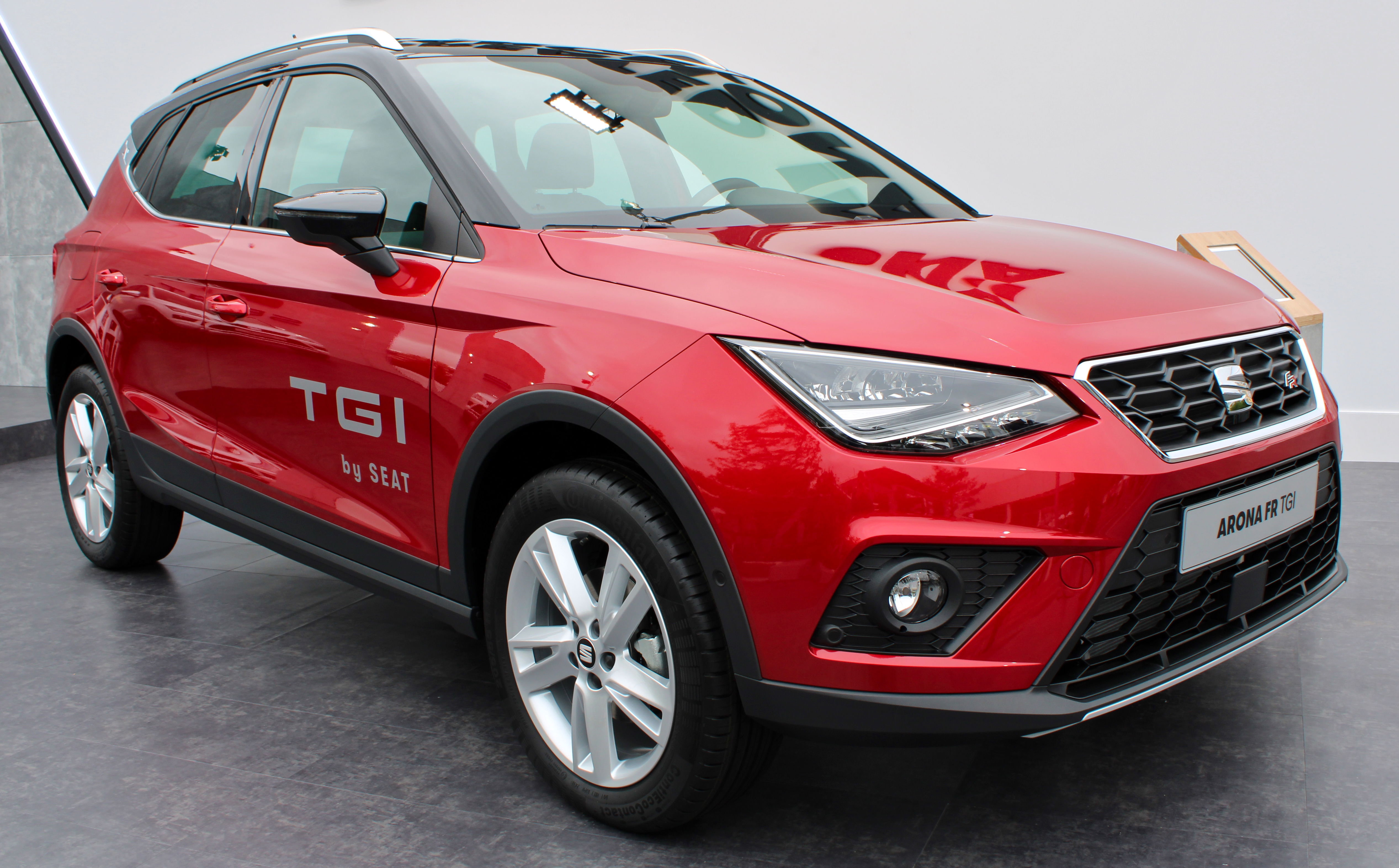 Seat Arona FR TGI at Paris Motor Show 2018